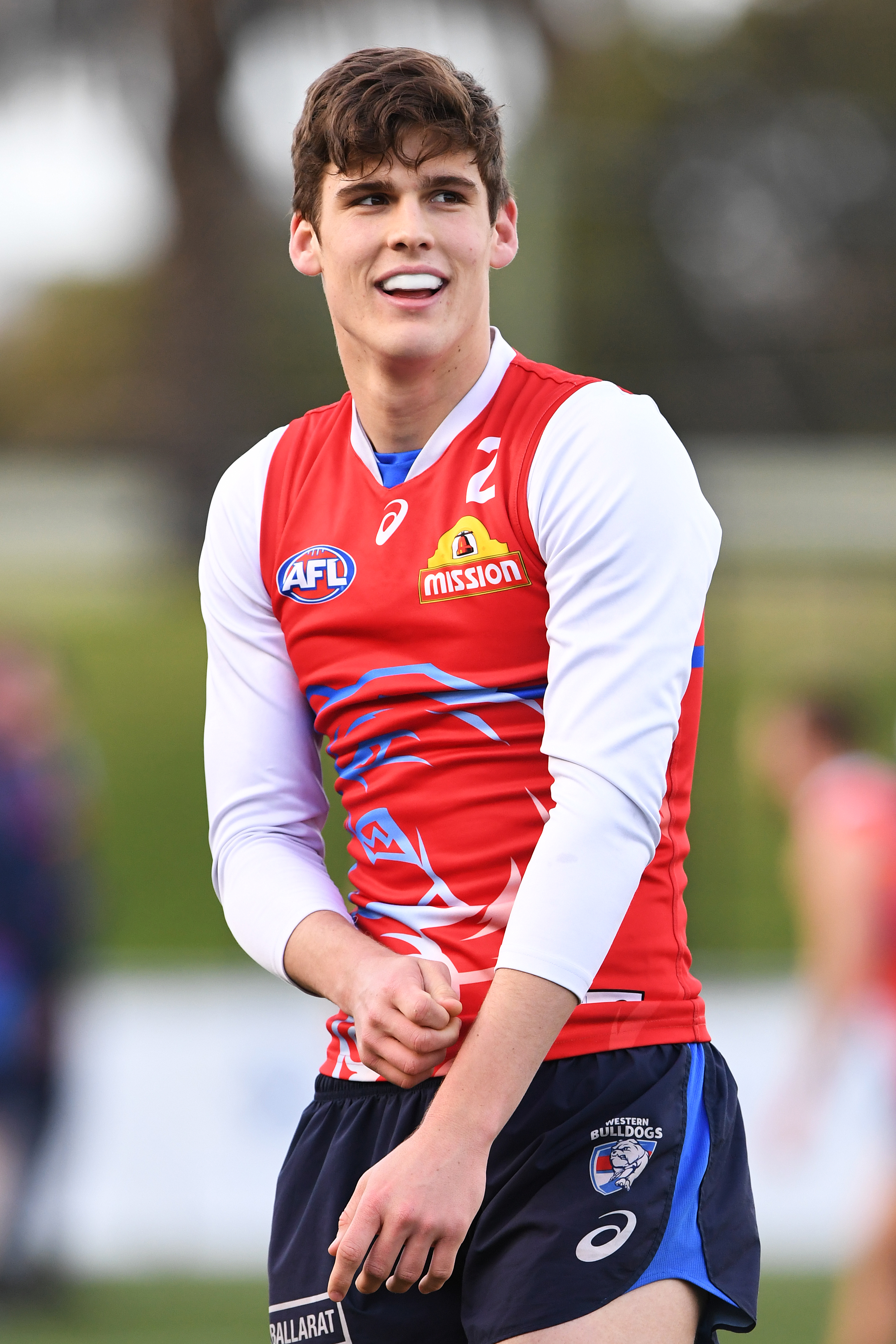 Lewis Young of the Western Bulldogs during Western Bulldogs training on 7 August 2018 at Whitten Oval in Melbourne, Victoria.